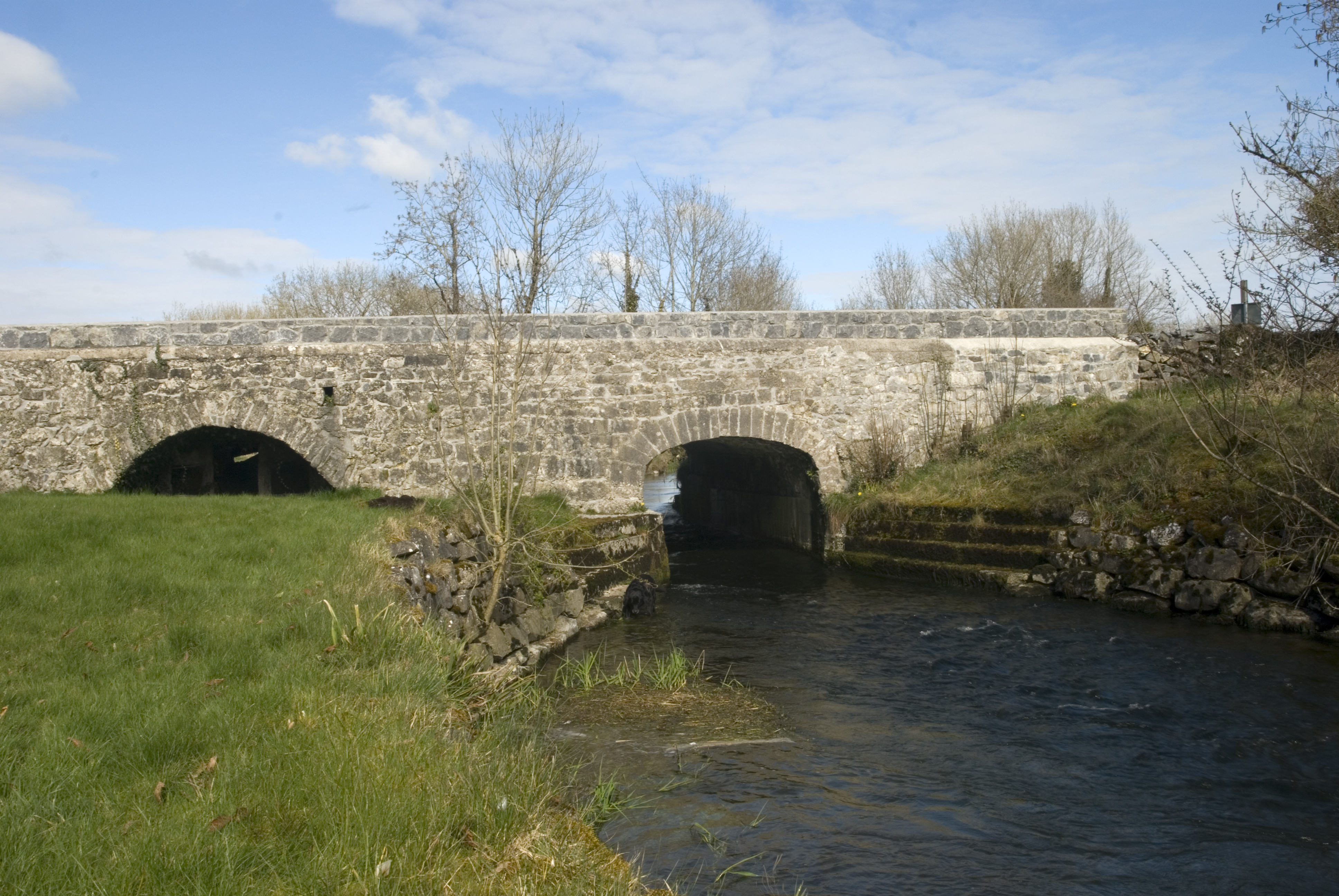 Arch of bridge over Cregg River, County Galway, Ireland, beside Cregg Mill